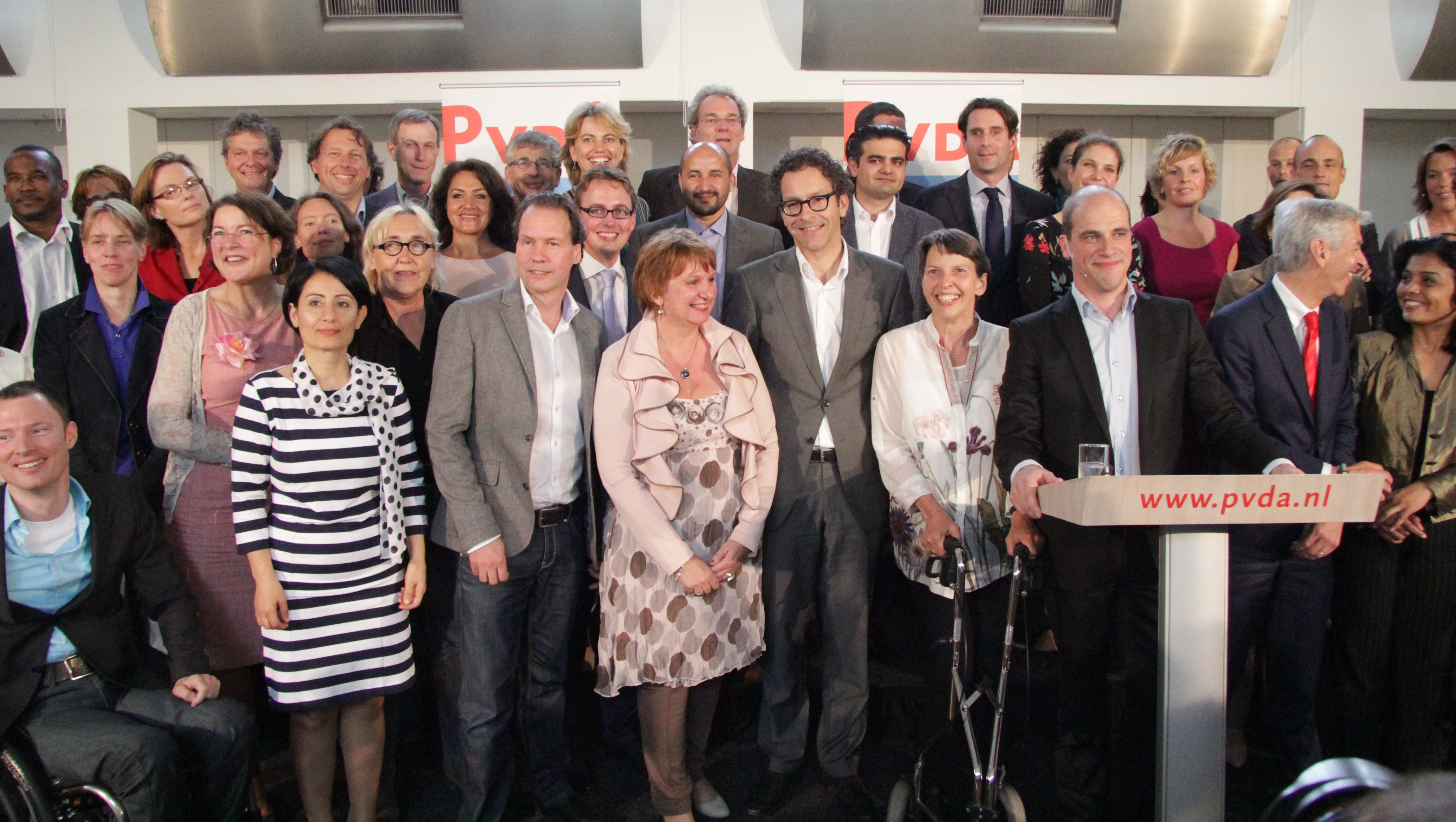 presentation of the candidates for parliament to the Labour Party